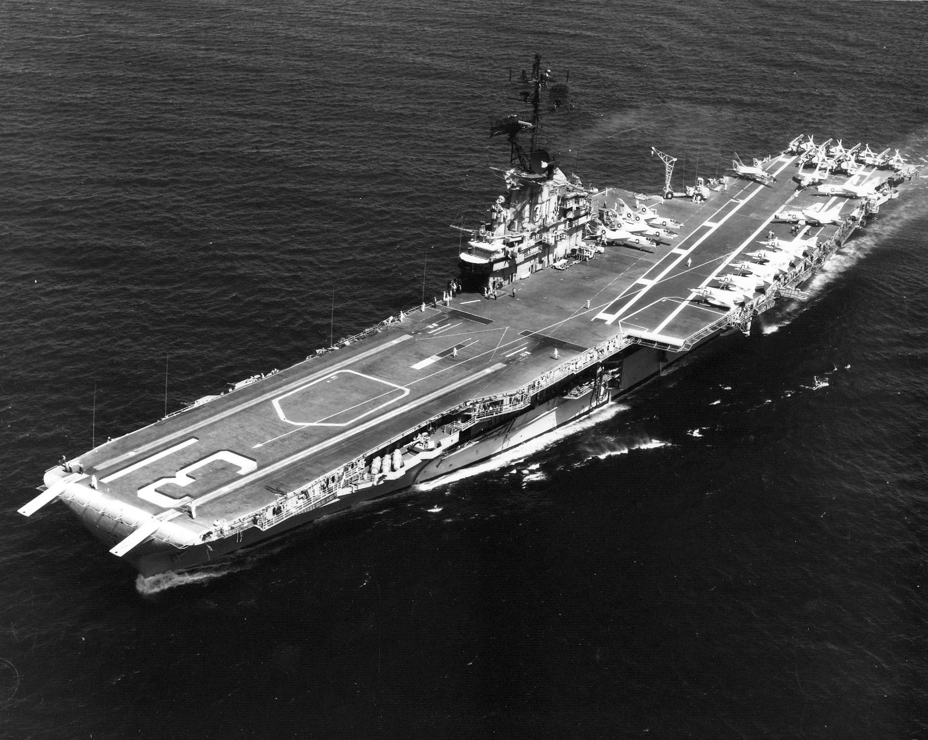 The U.S. Navy aircraft carrier USS Bon Homme Richard (CVA-31) underway. Bon Homme Richard, with assigned Attack Carrier Air Wing 19 (CVW-19), was deployed to Vietnam from 21 April 1965 to 13 January 1966.